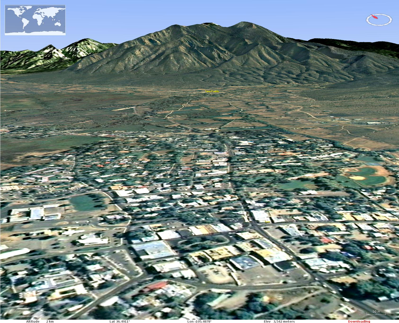 View northerly from Taos Plaza toward Taos Mountain, from NASA World Wind.